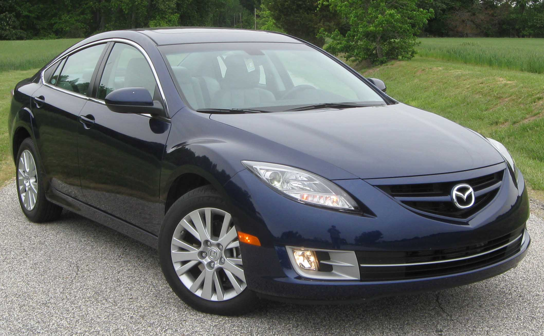 2010 Mazda6 i Grand Touring photographed in Marshall Hall, Maryland, USA.